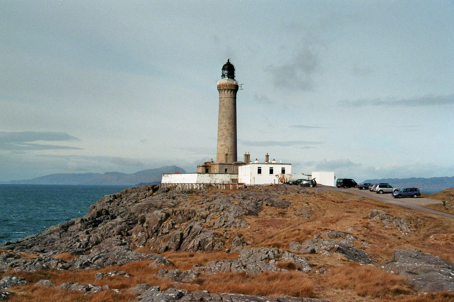 Ardnamurchan Lighthouse close to Ardnamurchan Point